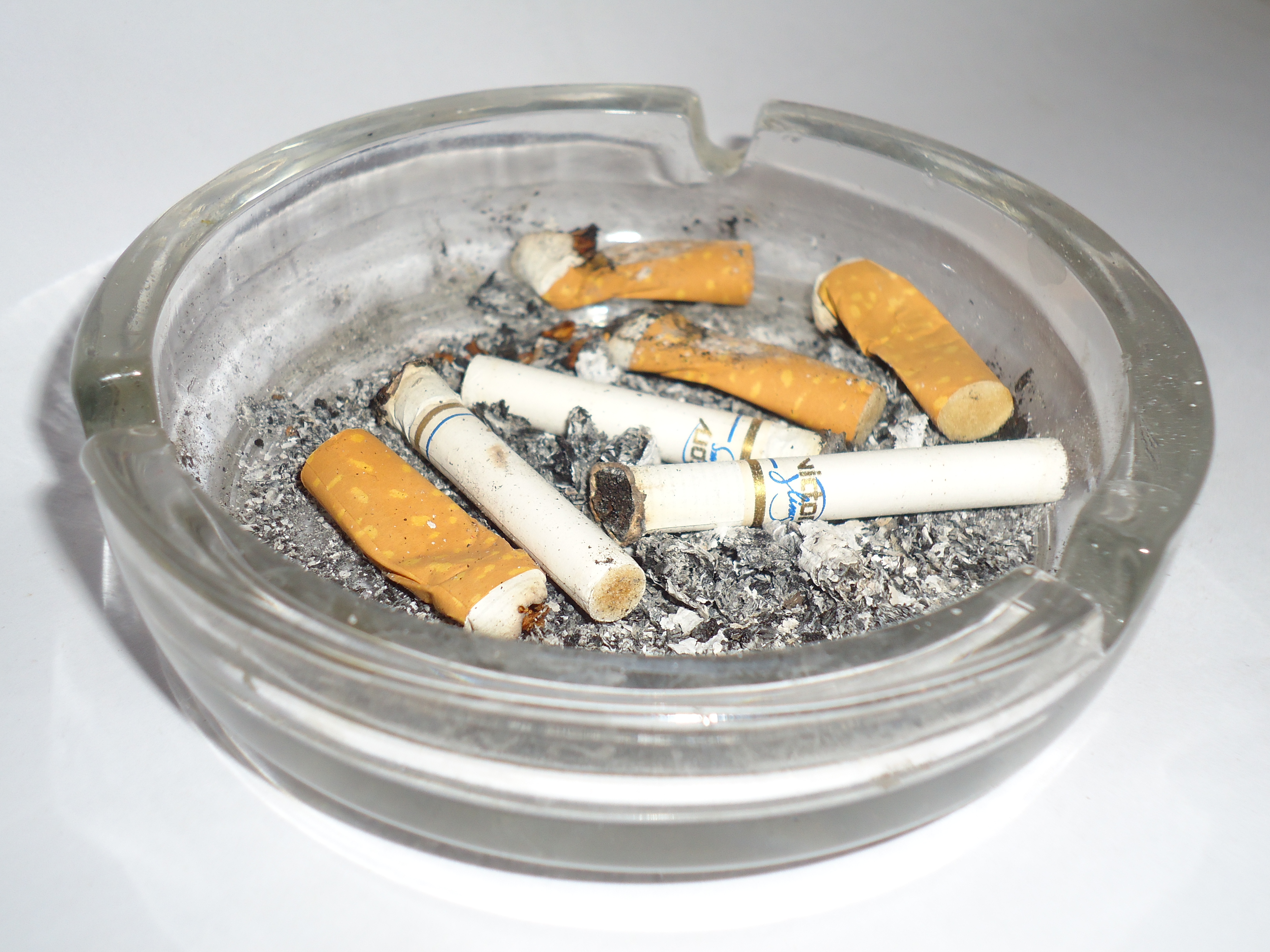 Finished Cigarette